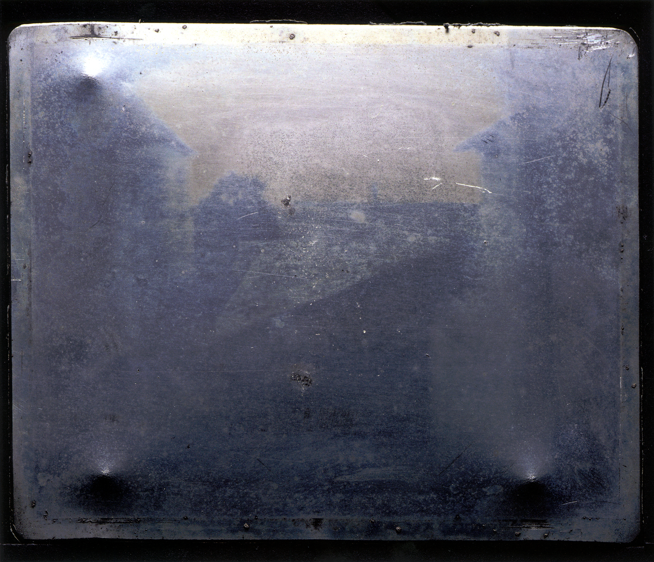 300dpi scan of the first successful permanent photograph from nature.